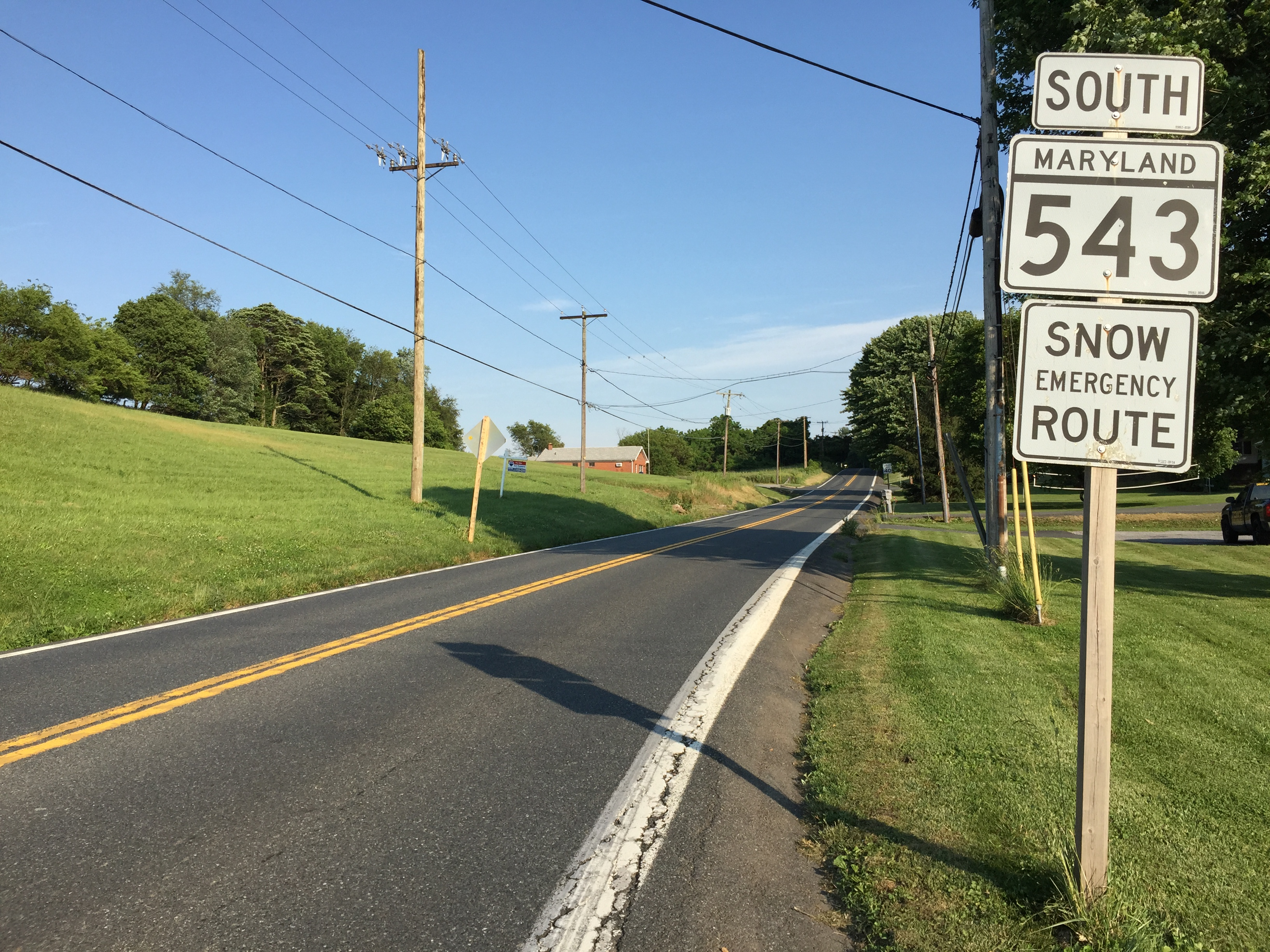 View south along Maryland State Route 543 (Ady Road) just south of Old Pylesville Road in Pylesville, Harford County, Maryland